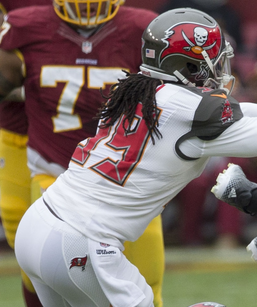 Brandon Dixon with the Tampa Bay Buccaneers at Redskins 11/16/14